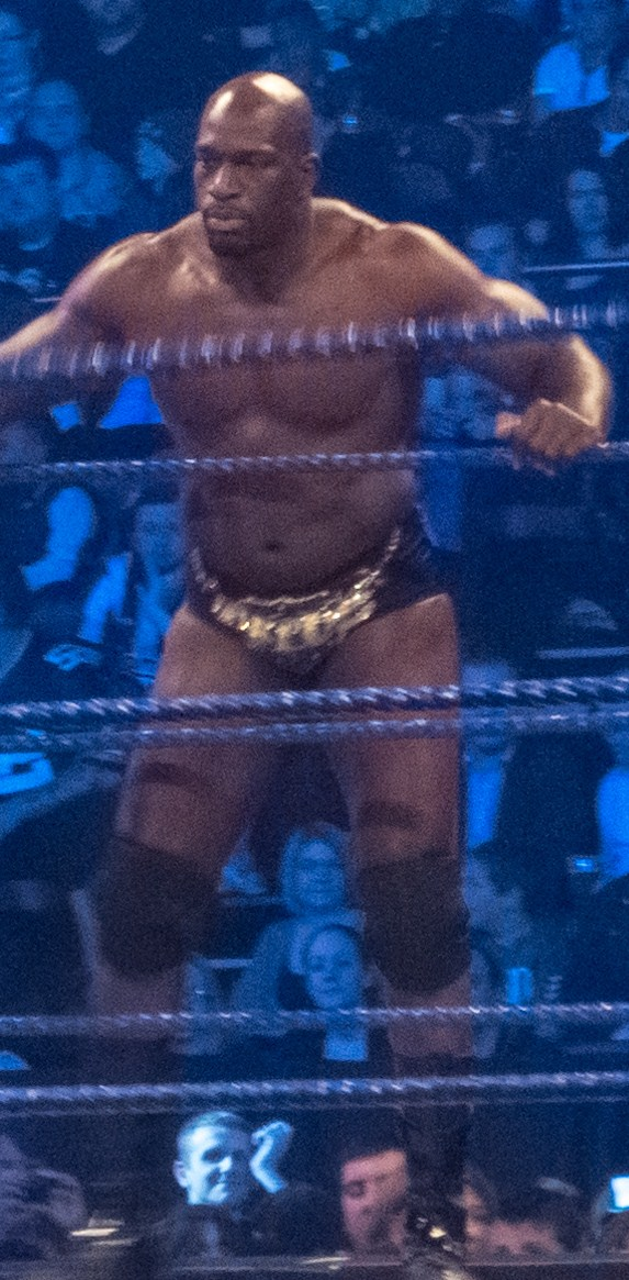 WWE wrestler Titus O'Neil at the WWE SmackDown tapings on 17 April 2012.